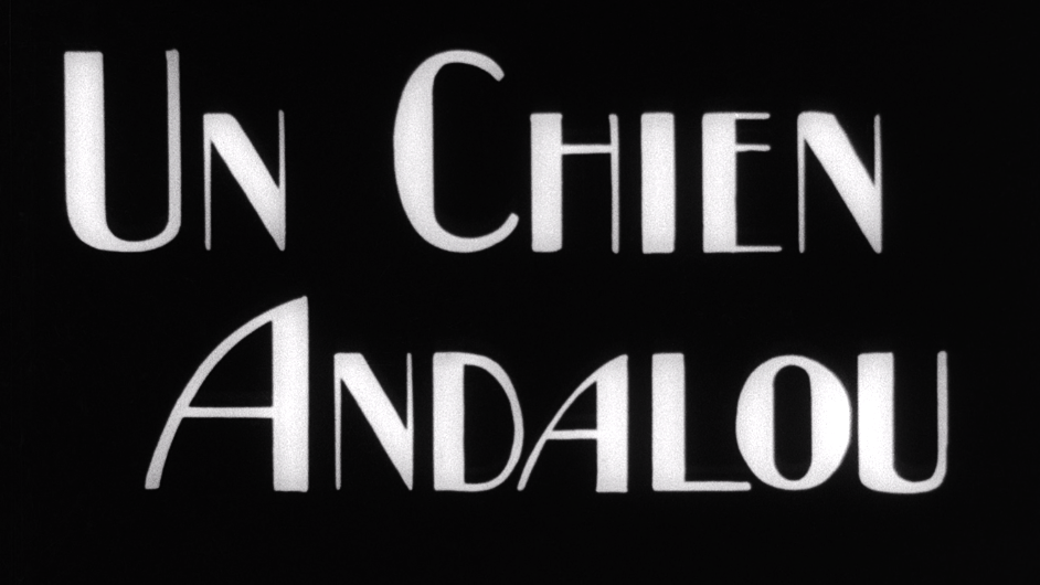 Logo of the film Un Chien Andalou